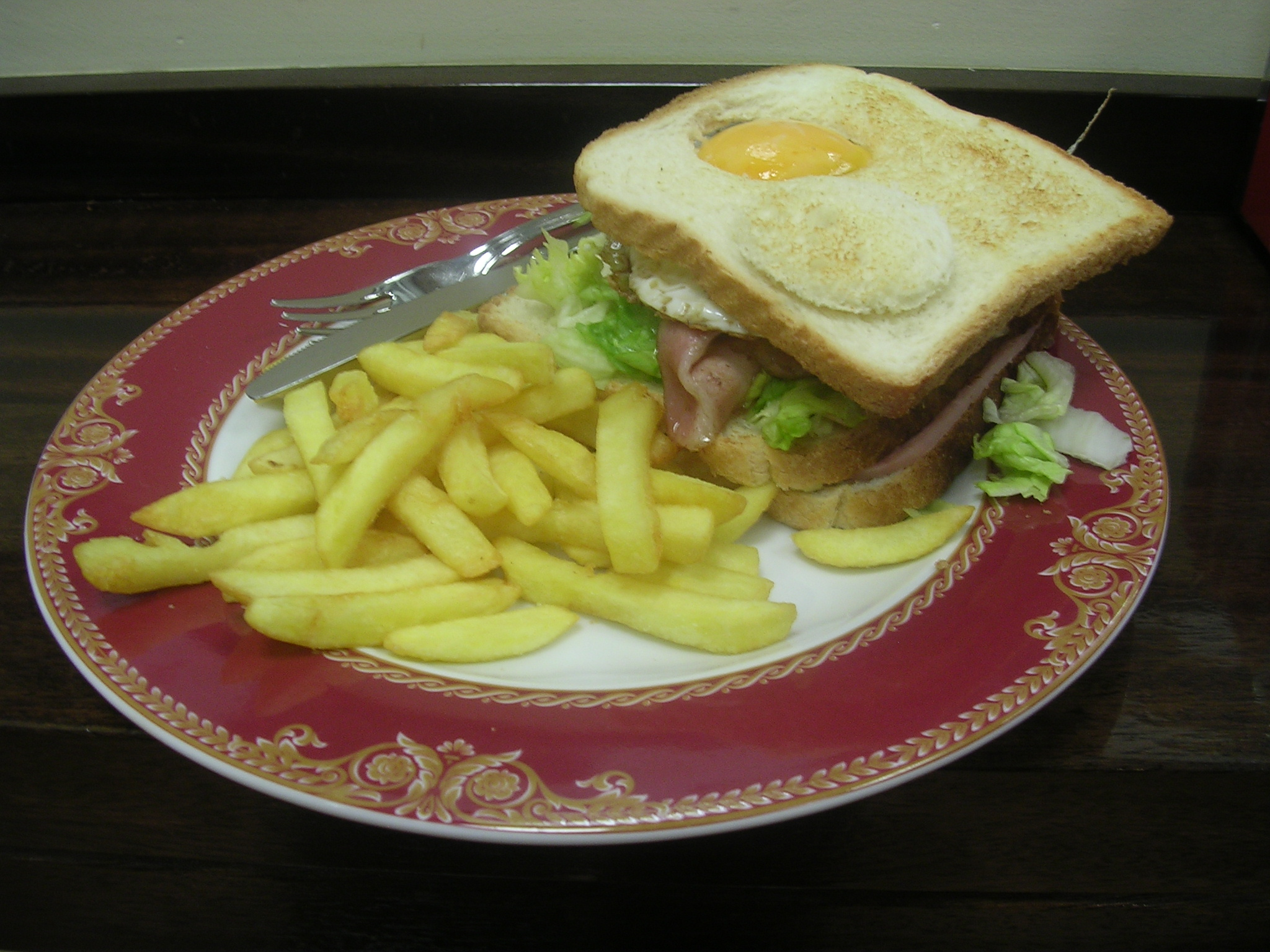 Sandwich Mixto con Huevo